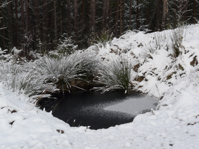 Icy pond in Struie Wood